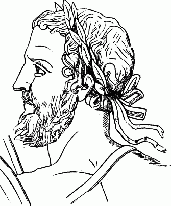 Septimus Severus